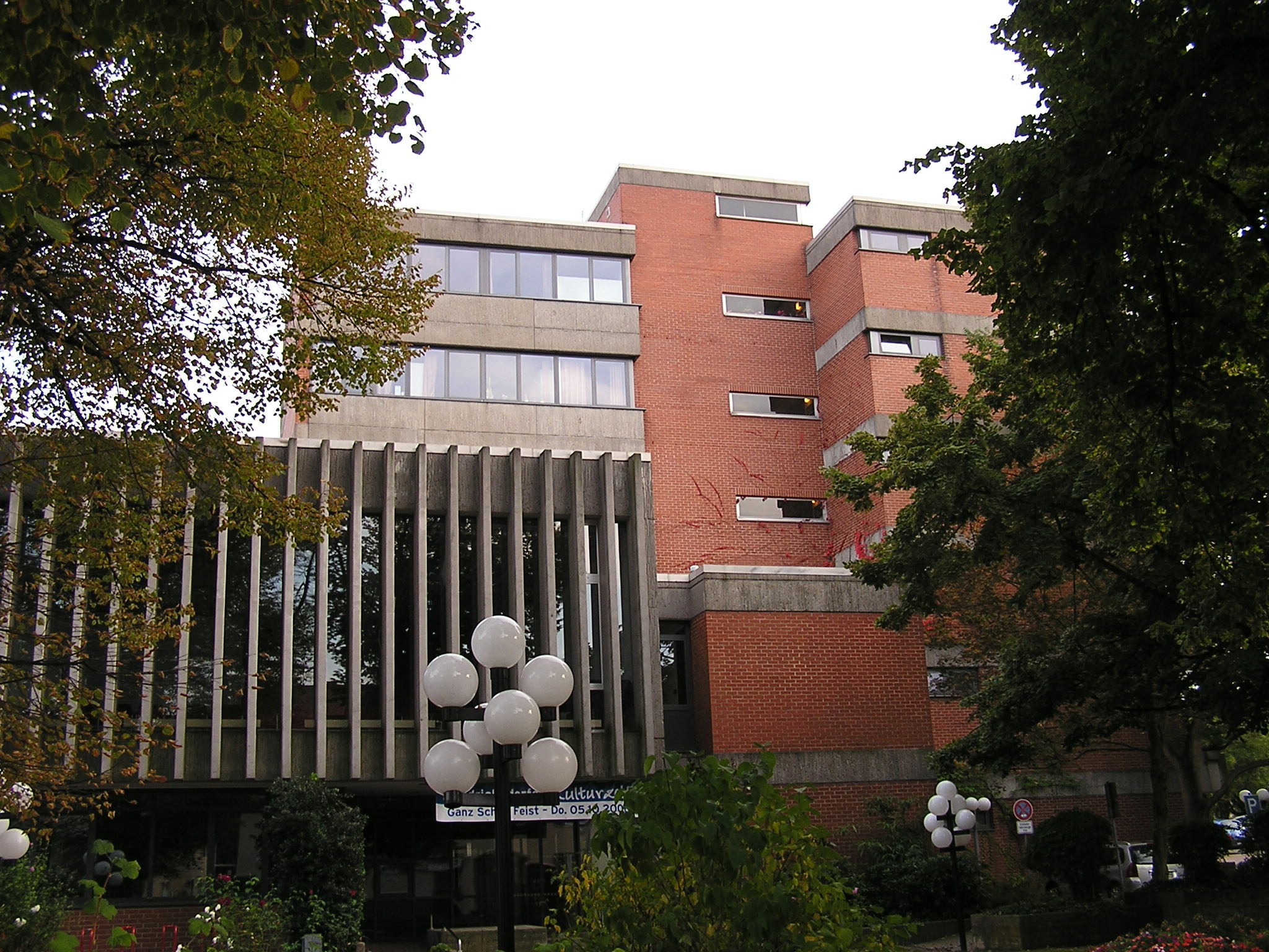 The town hall of Friedrichsdorf